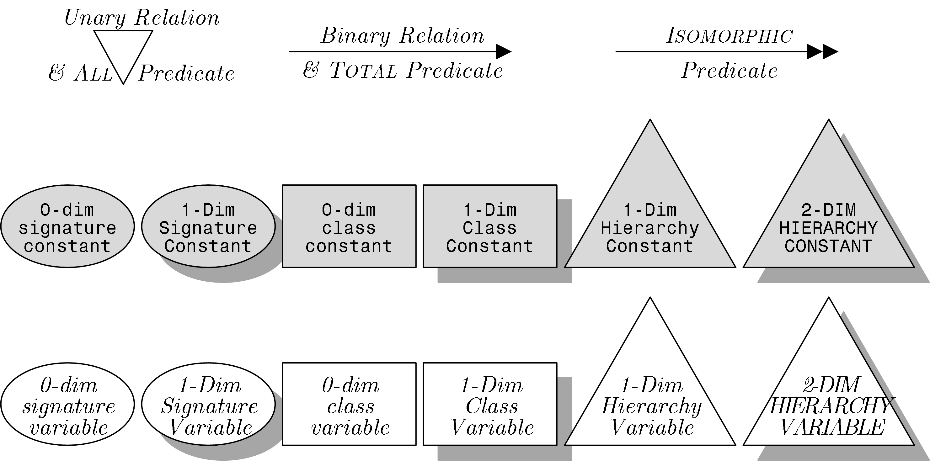 LePUS3 vocabulary